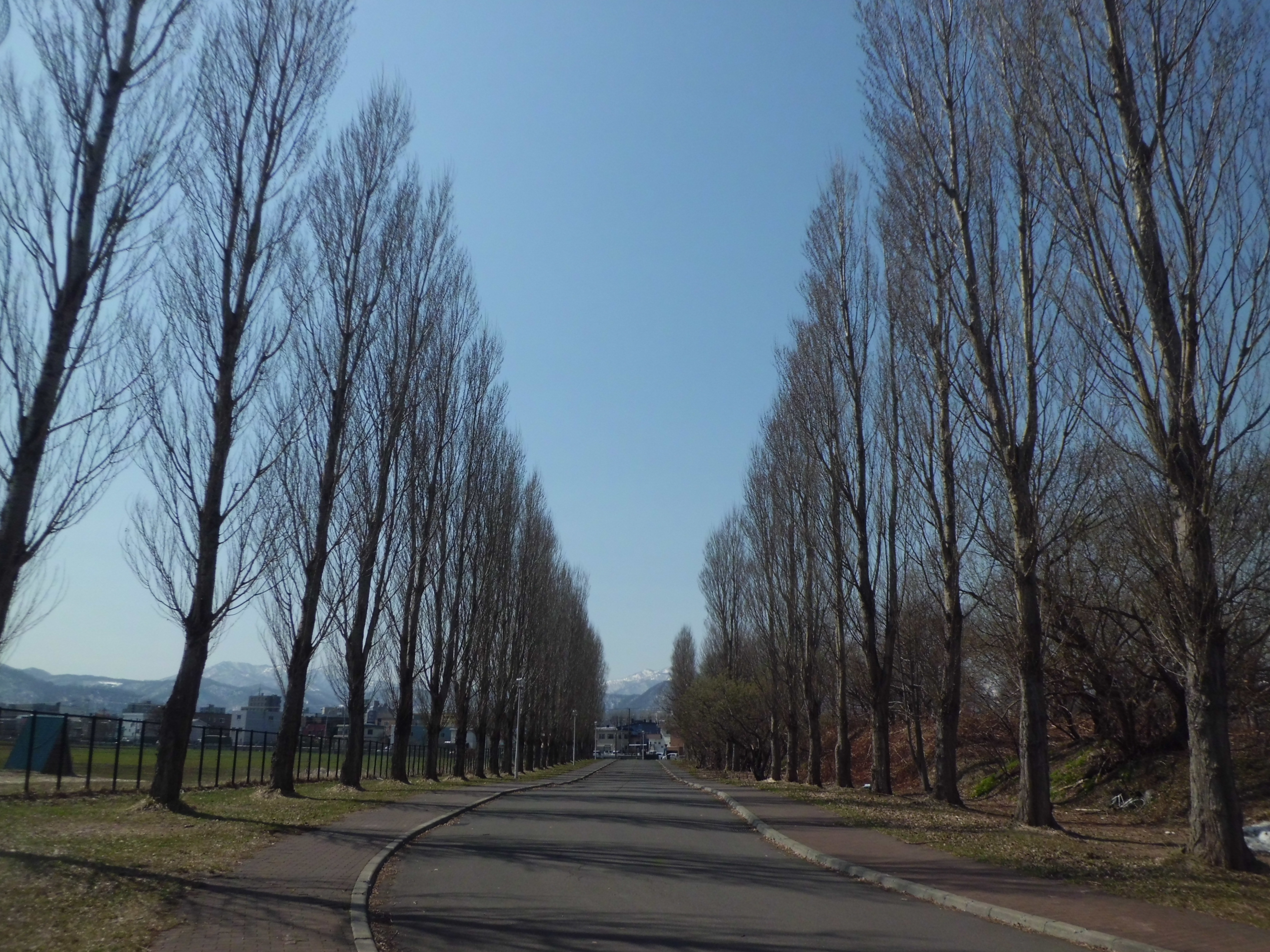 New Poplar avenue at Hokkaido University